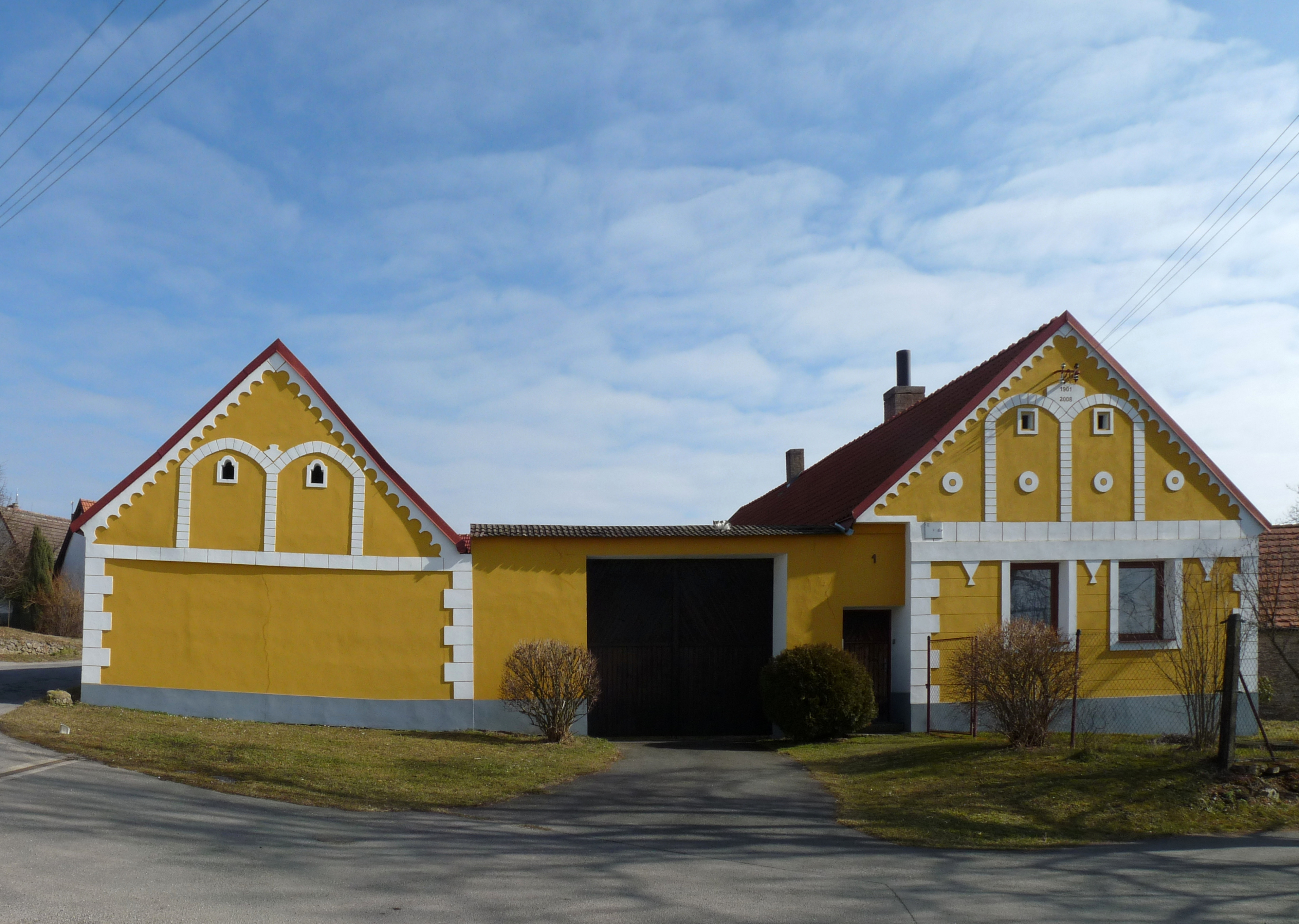 House No 1 in the village of Vesce, Tábor District, South Bohemia, Czech Republic.